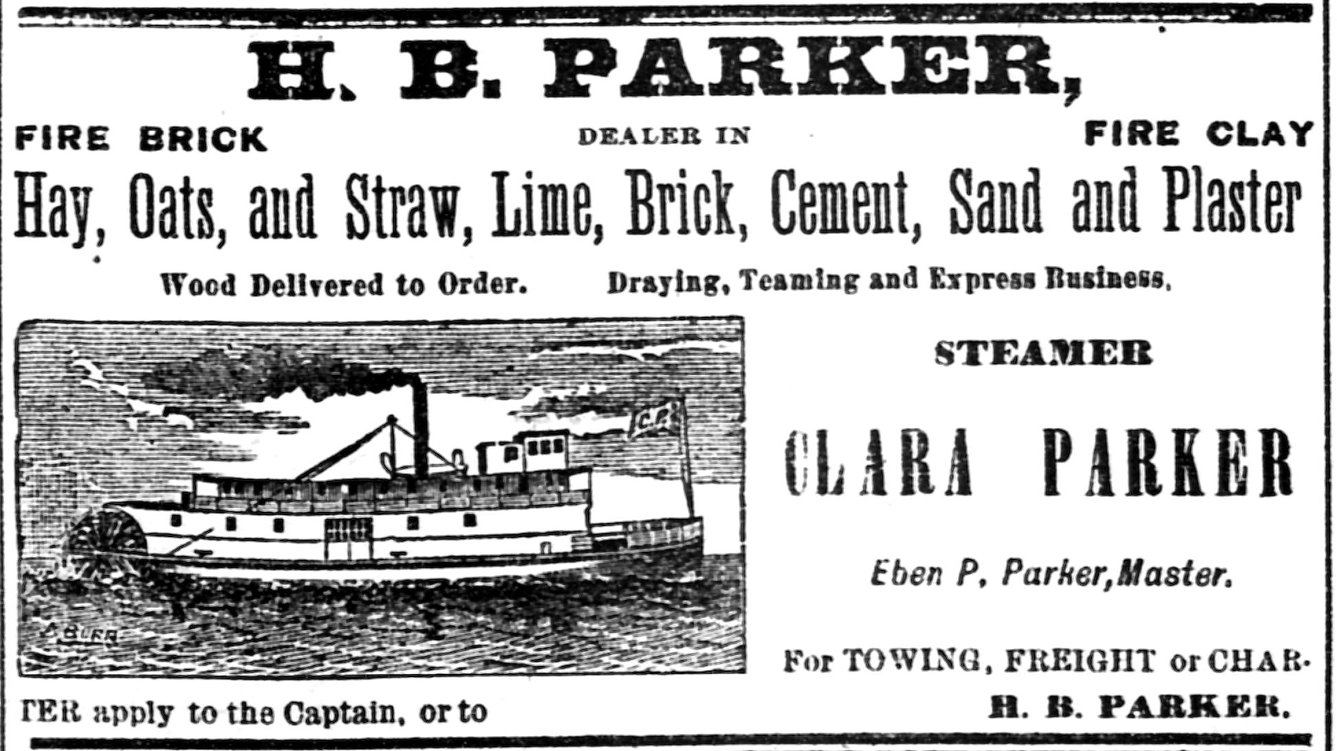 Advertisement for the Columbia River sternwheeler Clara Parker.